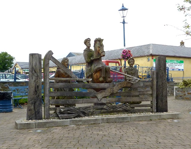 Rebecca and her Daughters Wooden sculpture of 'Rebecca' and her 'daughters'. This is situated in the entrance to the old mart ground, and commemorates the Rebecca Riots when farm workers dressed up as women and attacked the toll gates in the town.